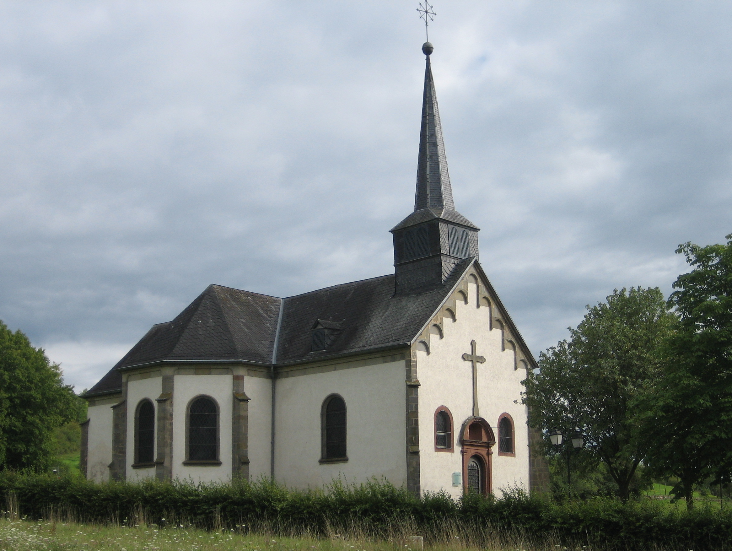 Kräizkapell (Holy Cross chapel; fr: Chapelle Sainte-Croix) in Echternach, Luxembourg. Since 27 May 1963 classified as National Monument on List of cultural heritage monuments in Luxembourg